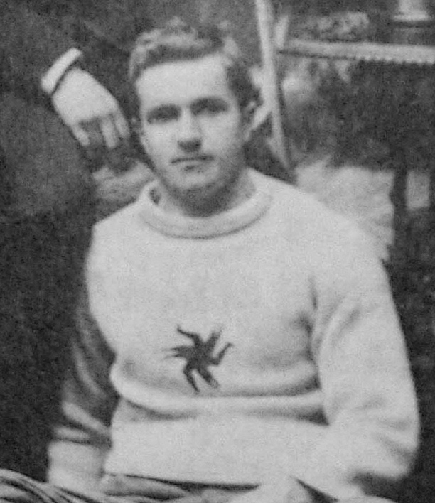 Section of File:OttawaHockeyClub1891.JPG, showing Jack Kerr.